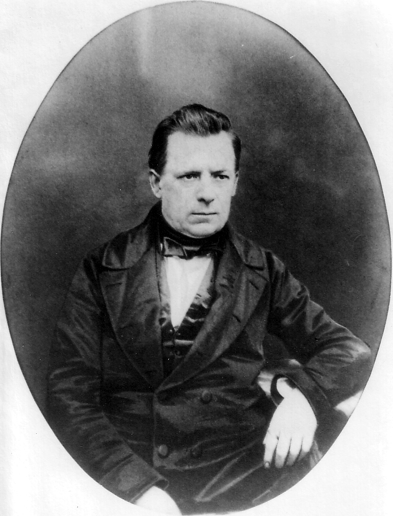 Dr. Jur. Friedrich Bernhard Vermehren *1802 † 1871